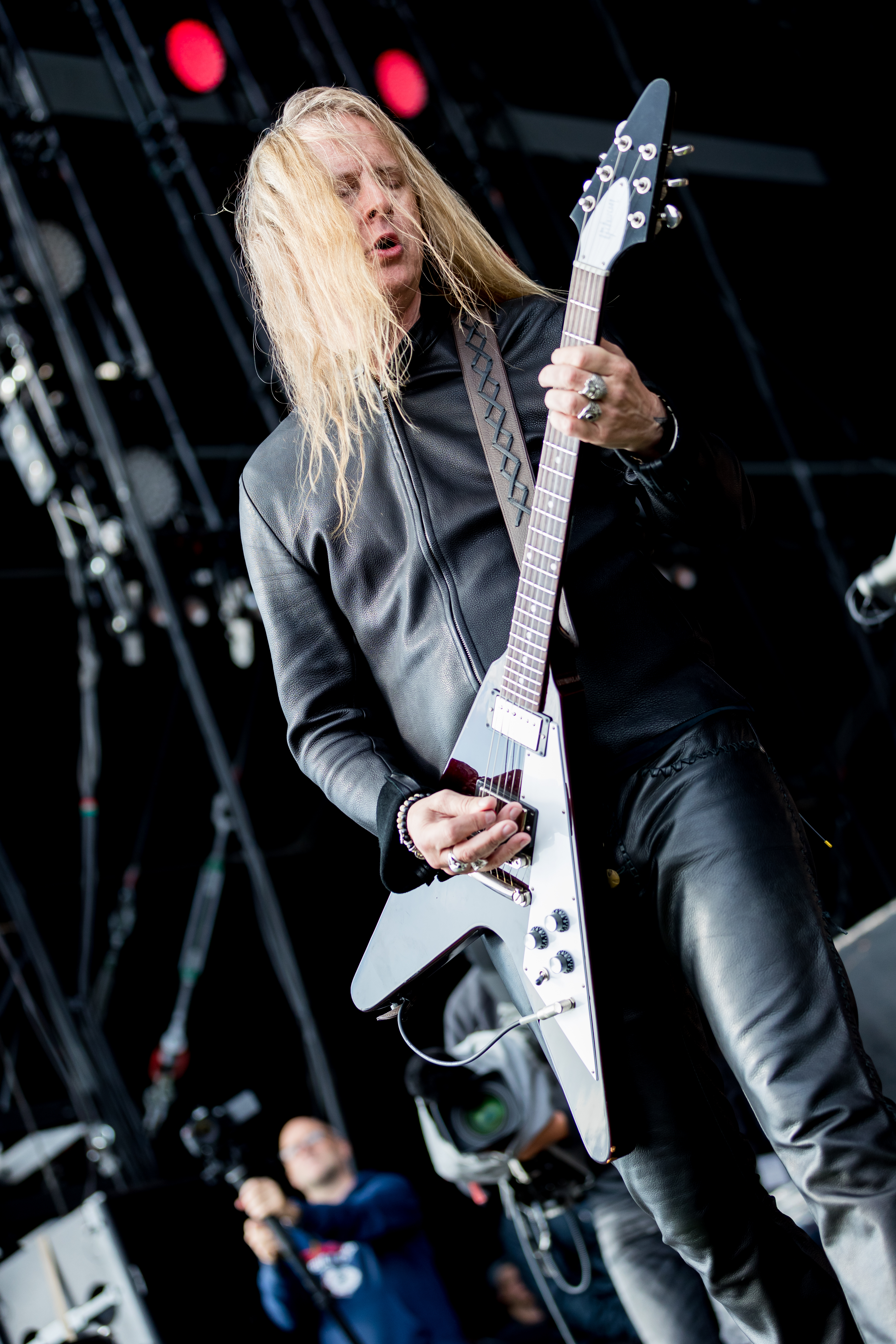 Alice in Chains during Rock am Ring ( at Nürburgring, Rheinland-Pfalz, Germany on 2019-06-07, Photo: Sven Mandel Promotion by Live Nation (